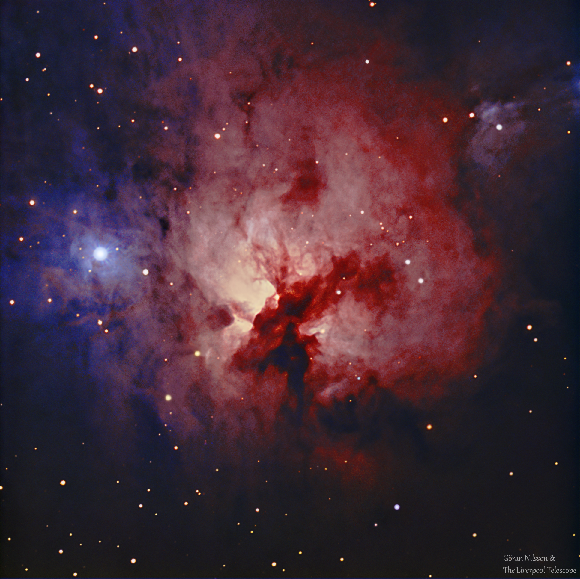 HaRGB image of the Northern Trifid Nebula NGC 1579. Data from the Liverpool Telescope, a 2 m RC telescope on La Palma, processed by Göran Nilsson. 72 x 95s exposures totaling 1.9 hours